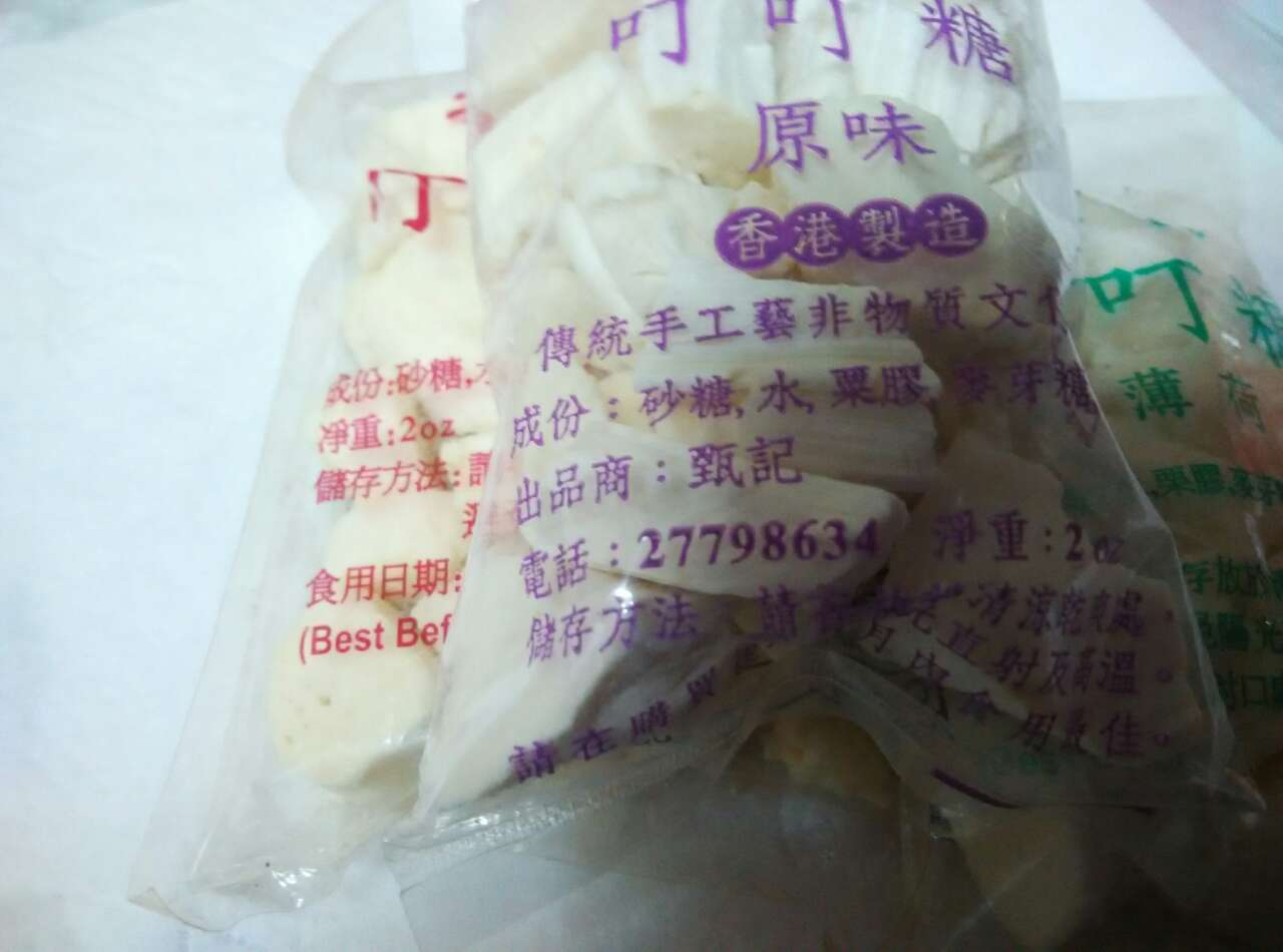 Taditional Cany 5